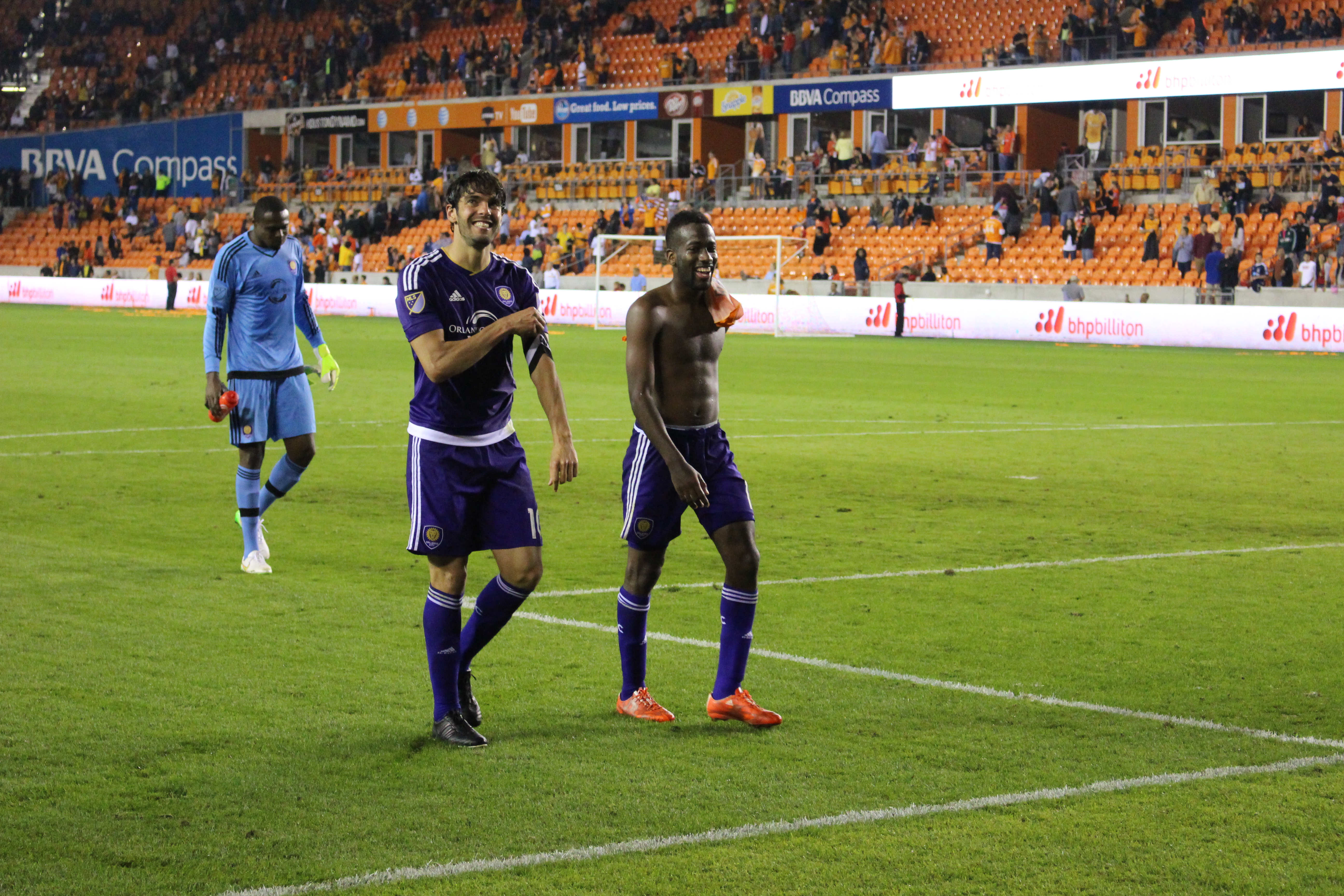 Kaká smiles at Houston fans